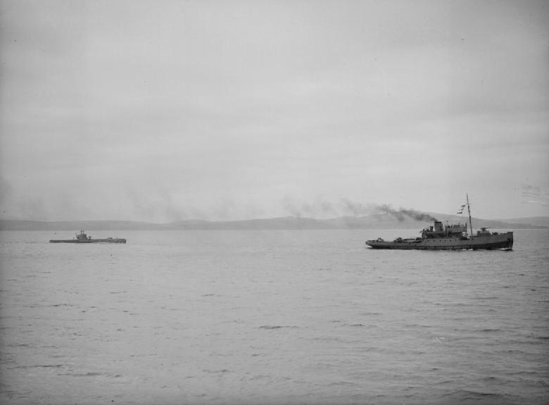 The Submarine STUBBORN being towed by HM Tug BANDIT at Greenock. The battle scarred submarine HMSM STUBBORN had returned home after her recent successful patrol during which she attacked two coastal convoys then survived determined depth charge attacks. Although damaged, she finally eluded her pursuers. During the return voyage, her crew acted as human "balance weights" to maintain the submarine on an even keel when her after hydroplanes were jammed "Hard Adive".